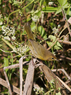 Altamira Yellowthroat (Geothlypis flavovelata) female, Tamaulipas, Mexico.